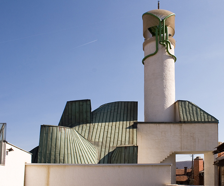 Exterior of Šerefudin's White Mosque in Visoko, Bosnia and Herzegovina